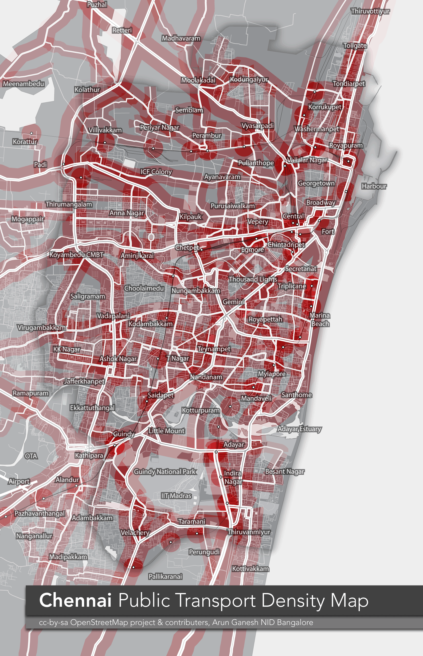 Heatmap showing the density of Chennai's bus and rail network coverage. Map was created using simple buffer shading on bus route corridors and railway stations in Adobe Illustrator. The width of the buffer for bus route roads is a function of the frequency of buses on that road. The Chennai OSM map data already contained roads tagged according to public transport frequency. Chennai's public transport network consists of the Chennai MTC, Chennai MRTS and the Chennai Suburban Railway Network. Map Data:Free data from OpenStreetMap Project